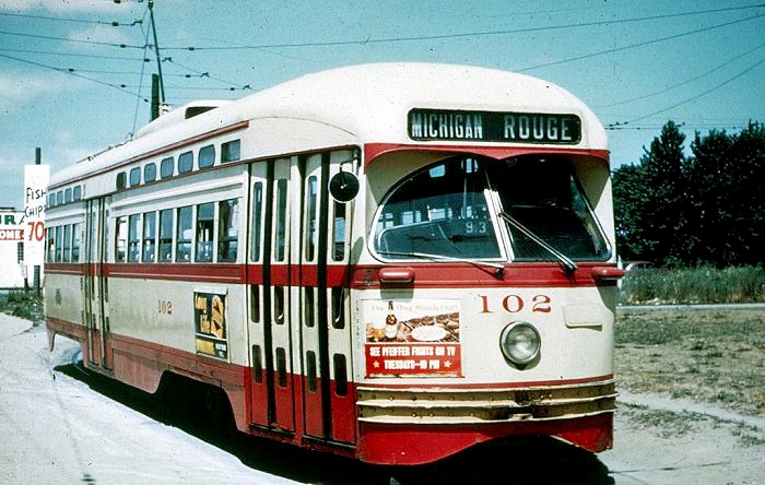 A red-and-white tram numbered 102, with the route names "Michigan" and "Rouge" showing, in Detroit, 1950